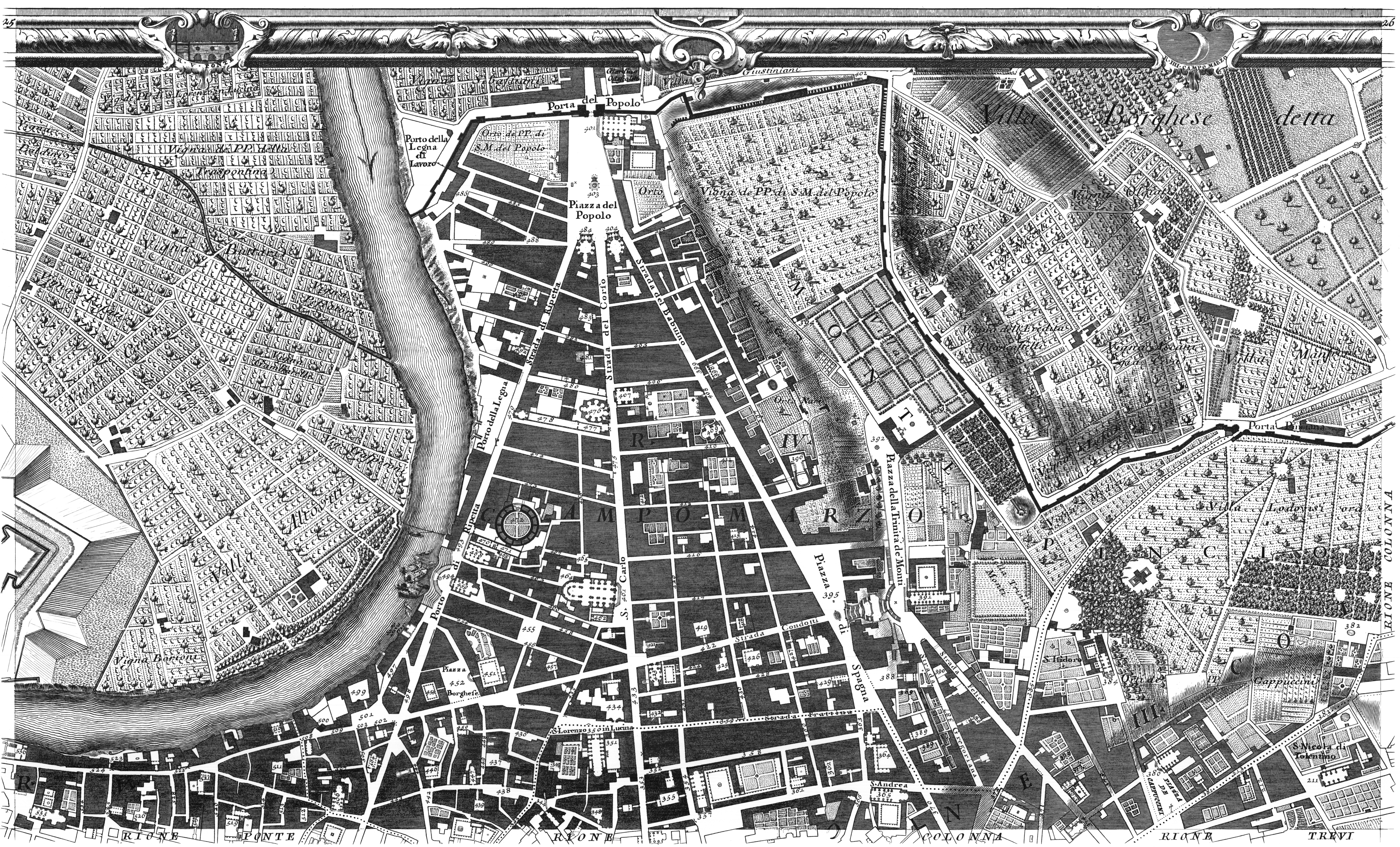 The New Plan of Rome by Giambattista Nolli part 2/12